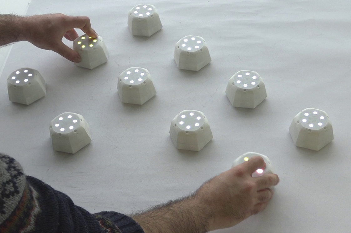 Cellulo robots in a tangible swarm interaction scenario.